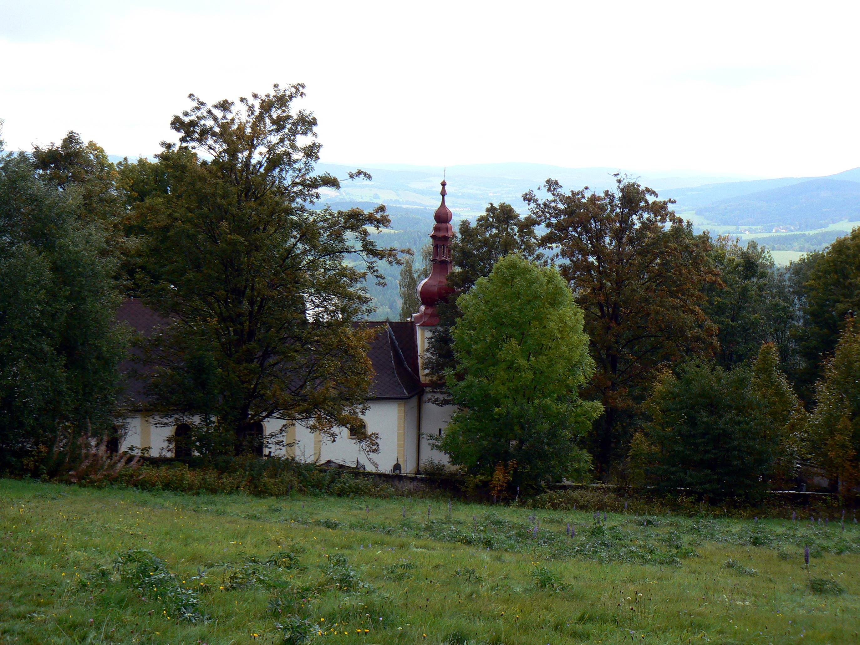 Church of Sv. Vintíř (St. Günther), Dobrá Voda (Hartmanice), Czech Republic